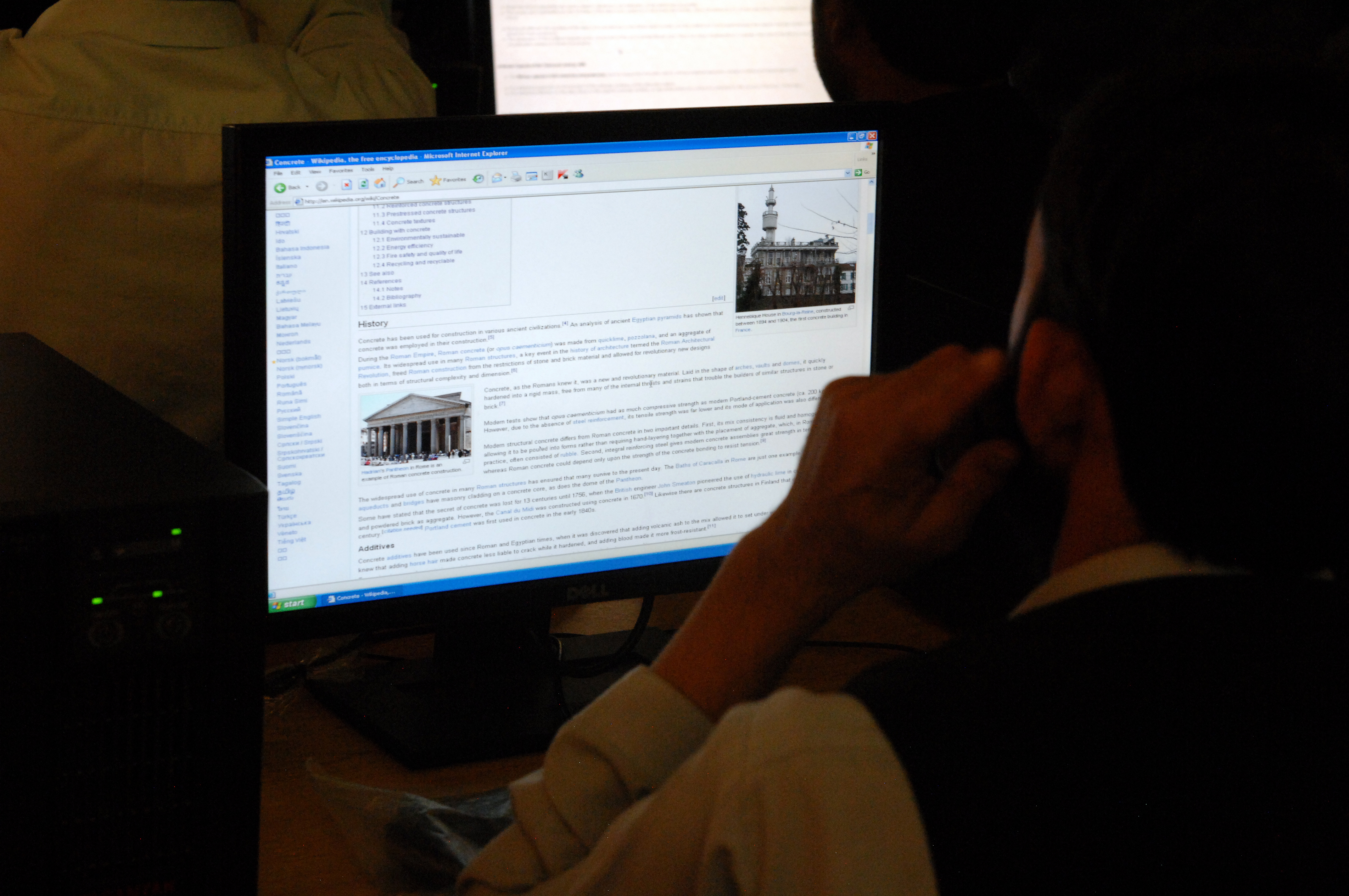 An Afghan man reading a Wikipedia article at Kandahar University in Afghanistan.